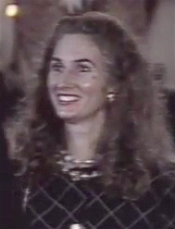 Annita Keating on a 1992 visit to Indonesia.